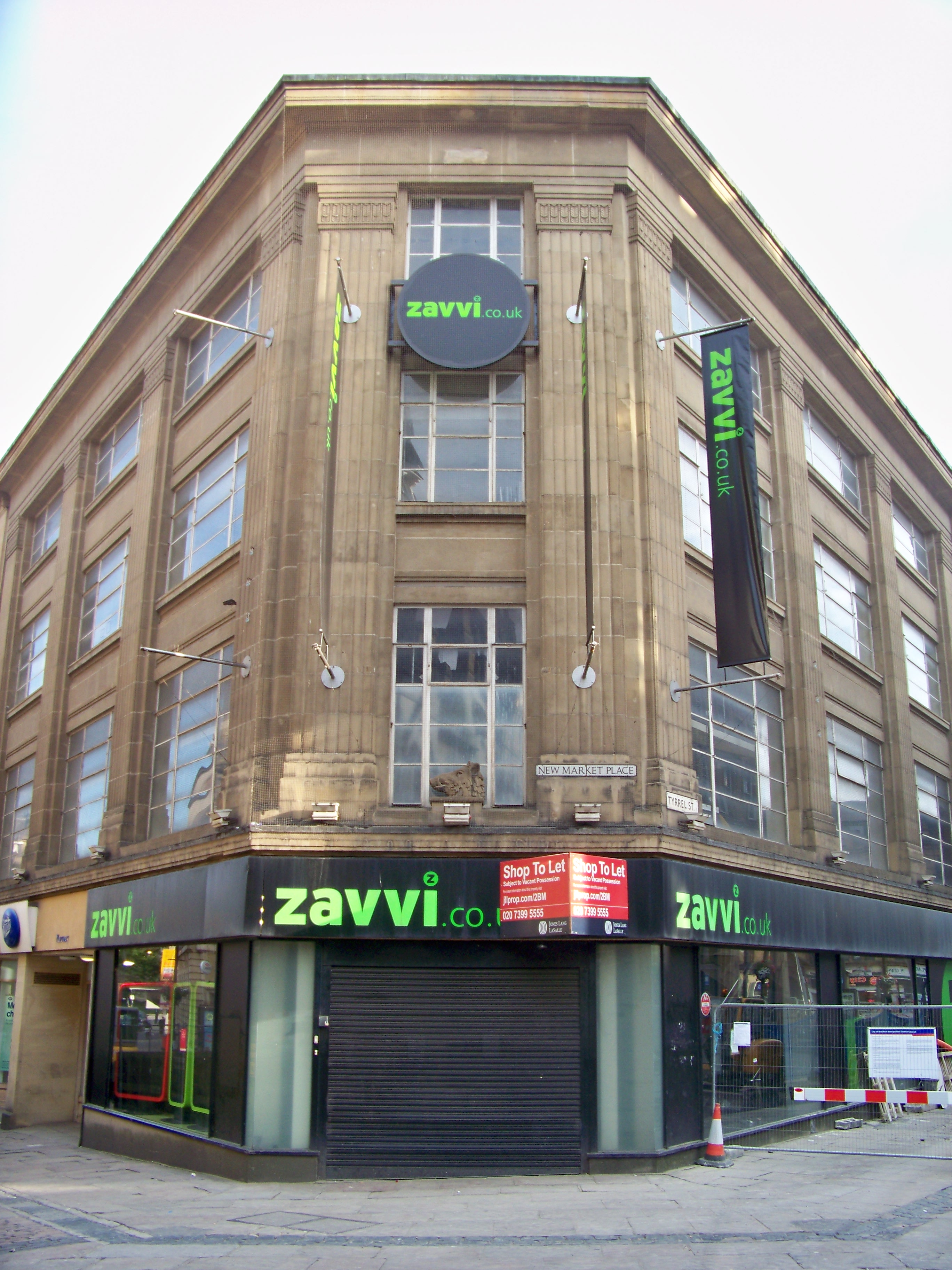 Zavvi in Bradford, West Yorkshire. Taken after closing in 2009.